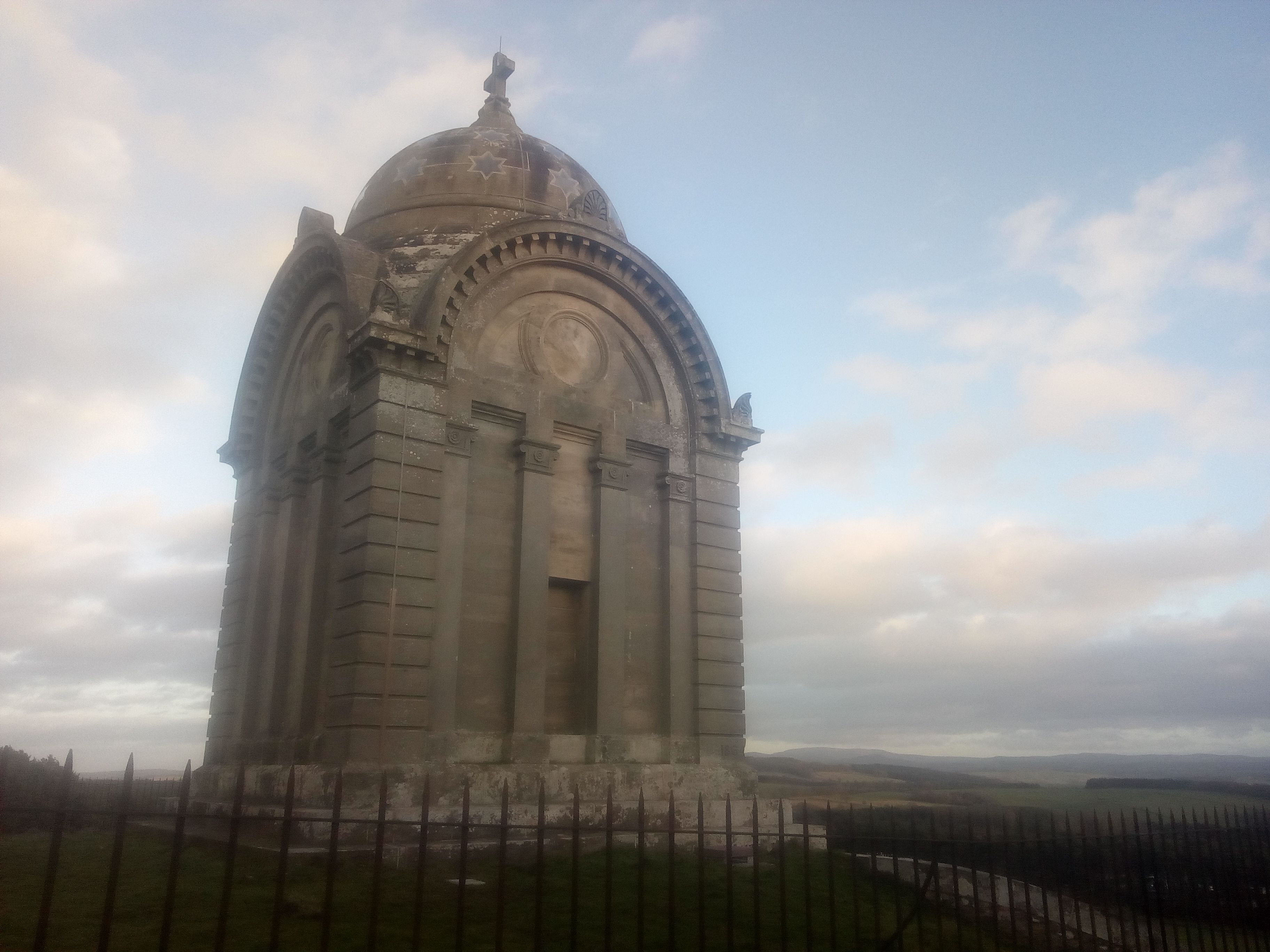 The Mausoleum during restoration in December 2018